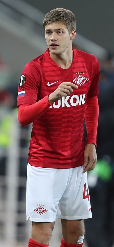 Artem Timofeev